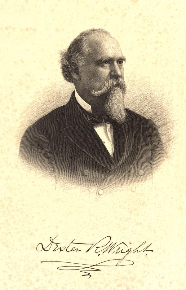 Col. Dexter R. Wright, from The history of the Fifteenth Connecticut Volunteers in the War of the Defense of the Union, 1861-1865 by Thorpe, Sheldon Brainerd. New Haven, The Price, Lee & Adkins Co., 1893.